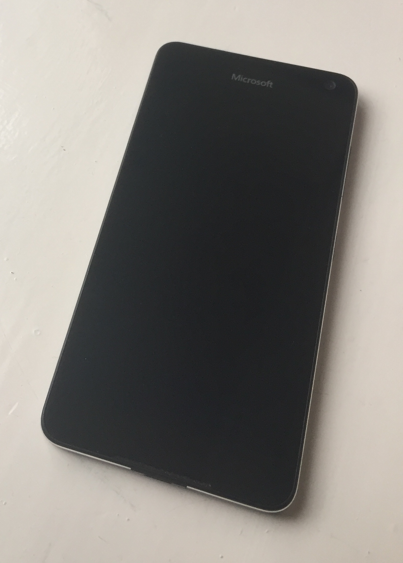 A Microsoft Lumia 650 mobile phone.